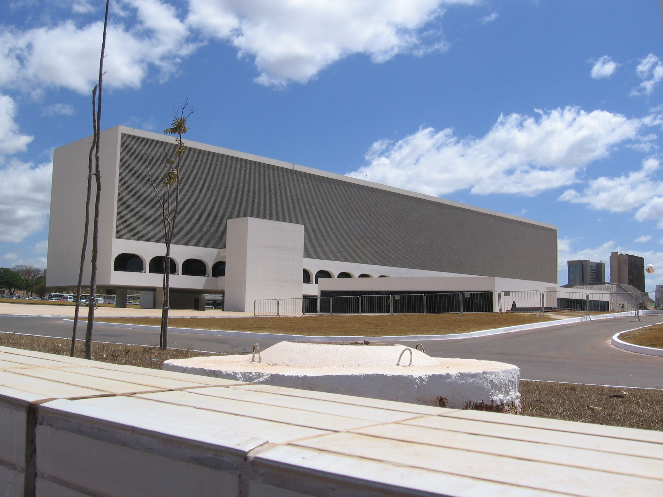 A view of the Brasilia National Library from the nearby bus station